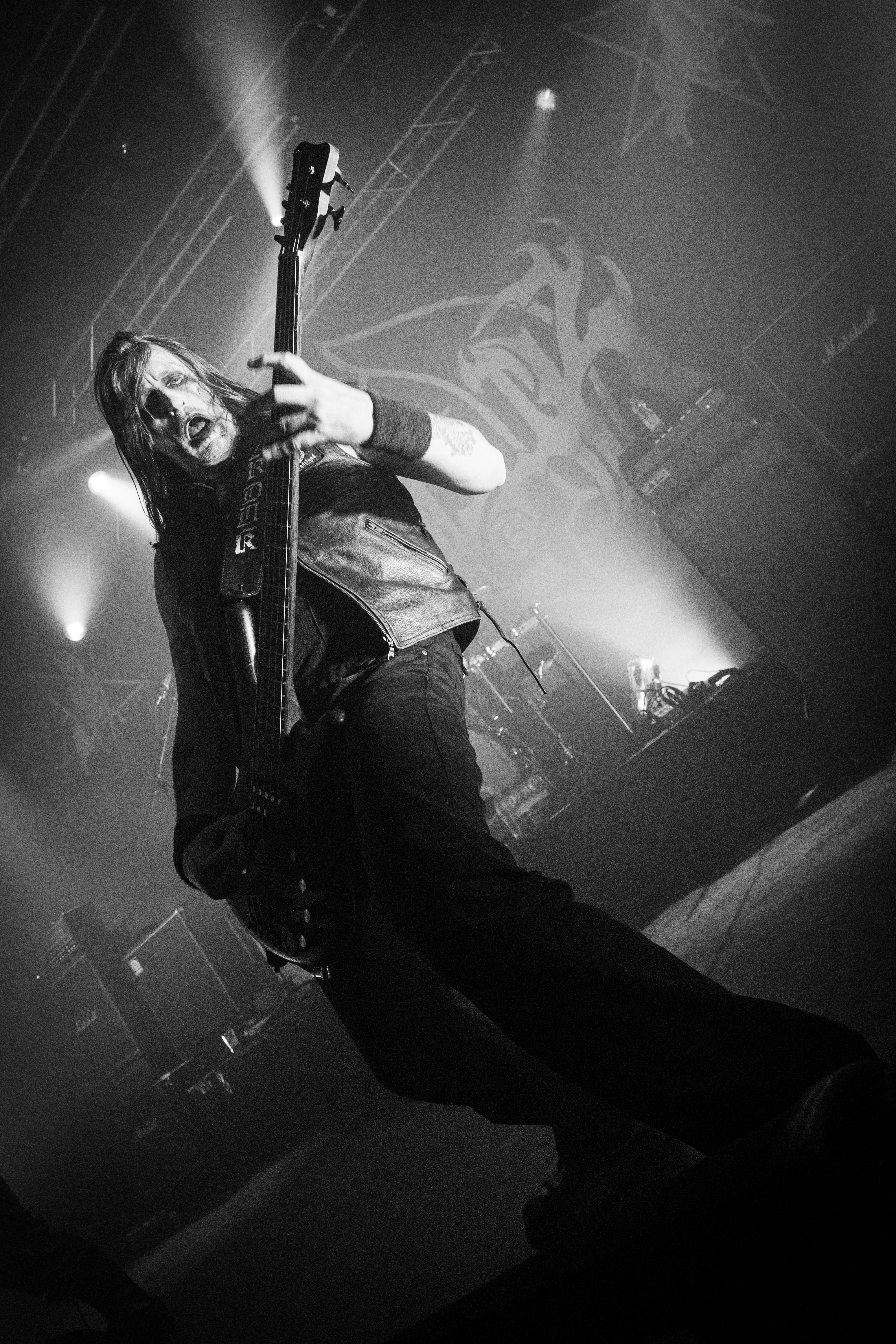 Marduk performing live at Metal Meeting 2015, Eindhoven, Netherlands